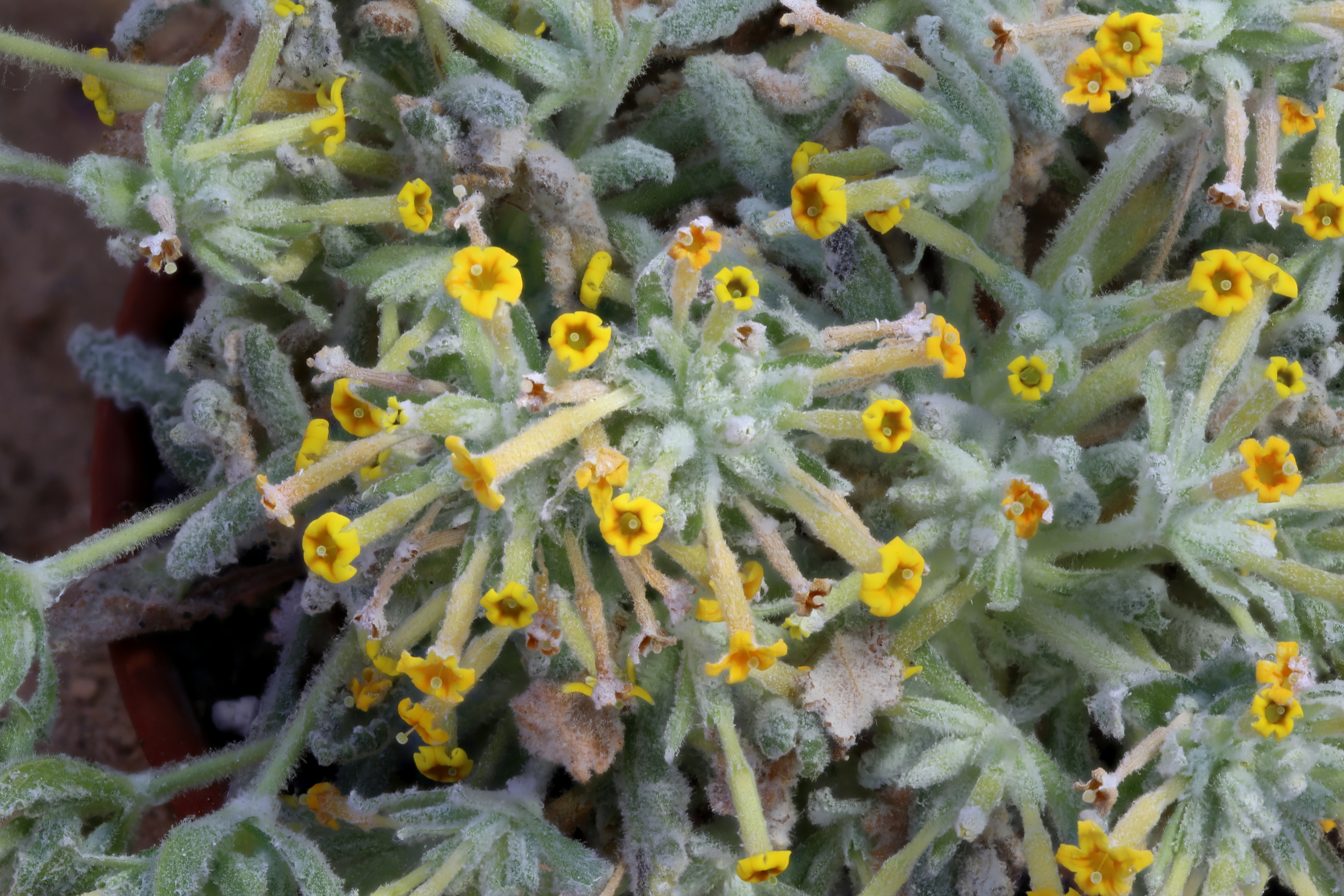 Dionysia bornmuelleri 'klon 1' at Gothenburg Botanical Garden 2015. Plant id: 2007-1784 p W -- EGO.IQ 135